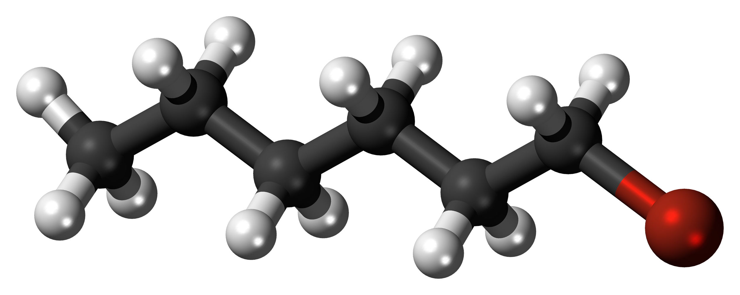 Ball-and-stick model of the 1-bromohexane molecule, an haloalkane. Colour code: Carbon, C: black Hydrogen, H: white Bromine, Br: red-brown